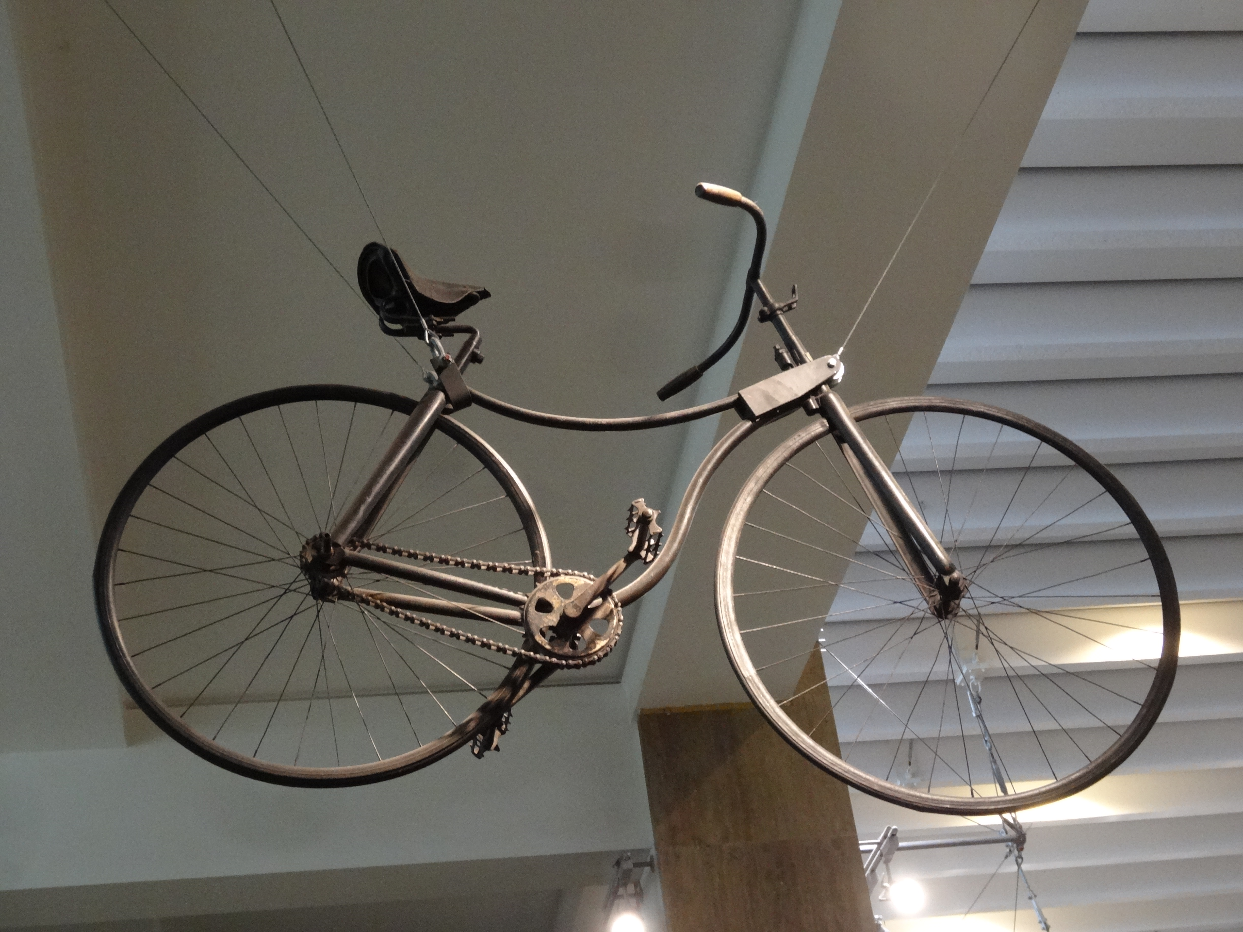 Rover safety bicycle of 1885 in the Science Museum (London)